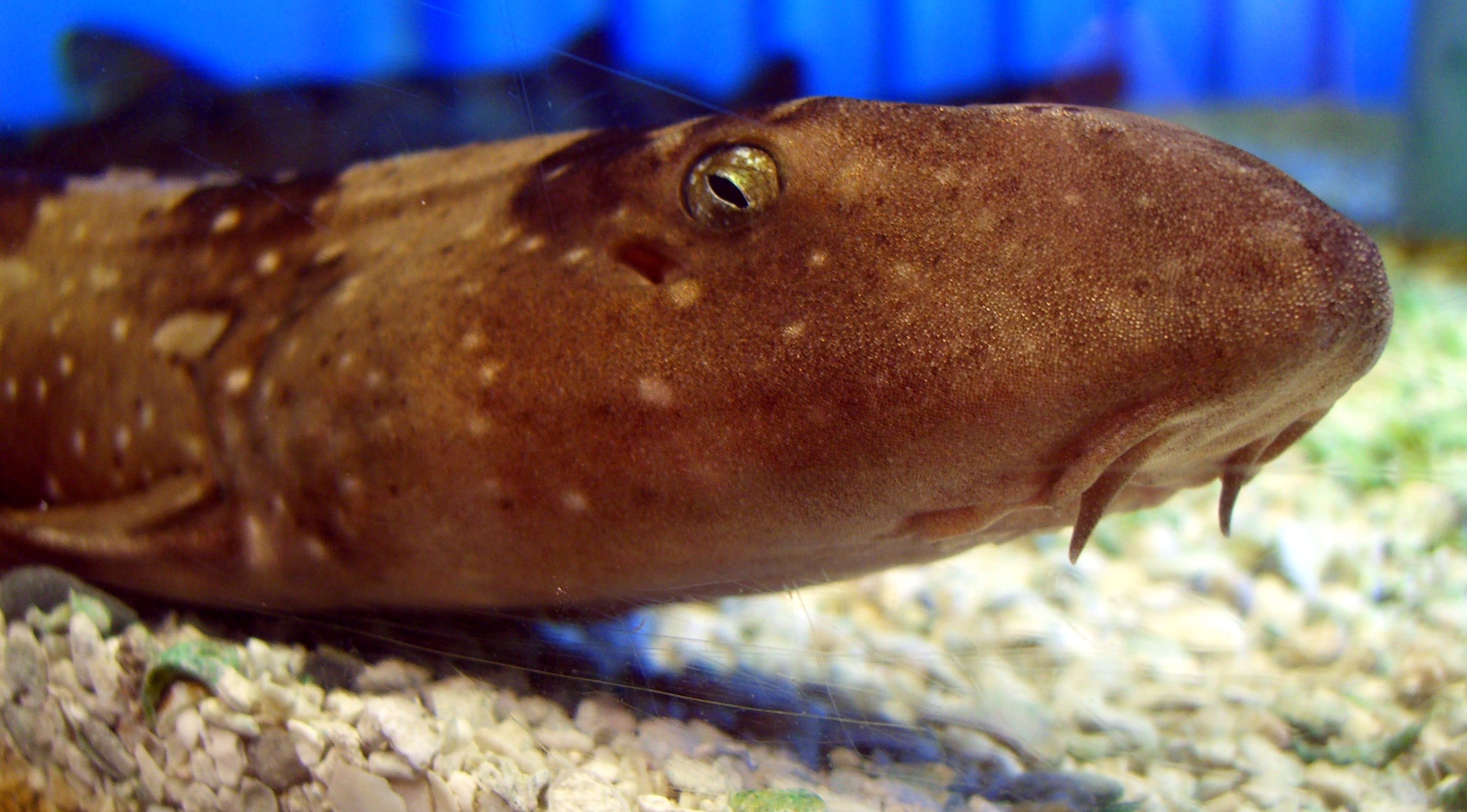 Whitespotted bamboo shark (Chiloscyllium plagiosum) at Disney World, Florida